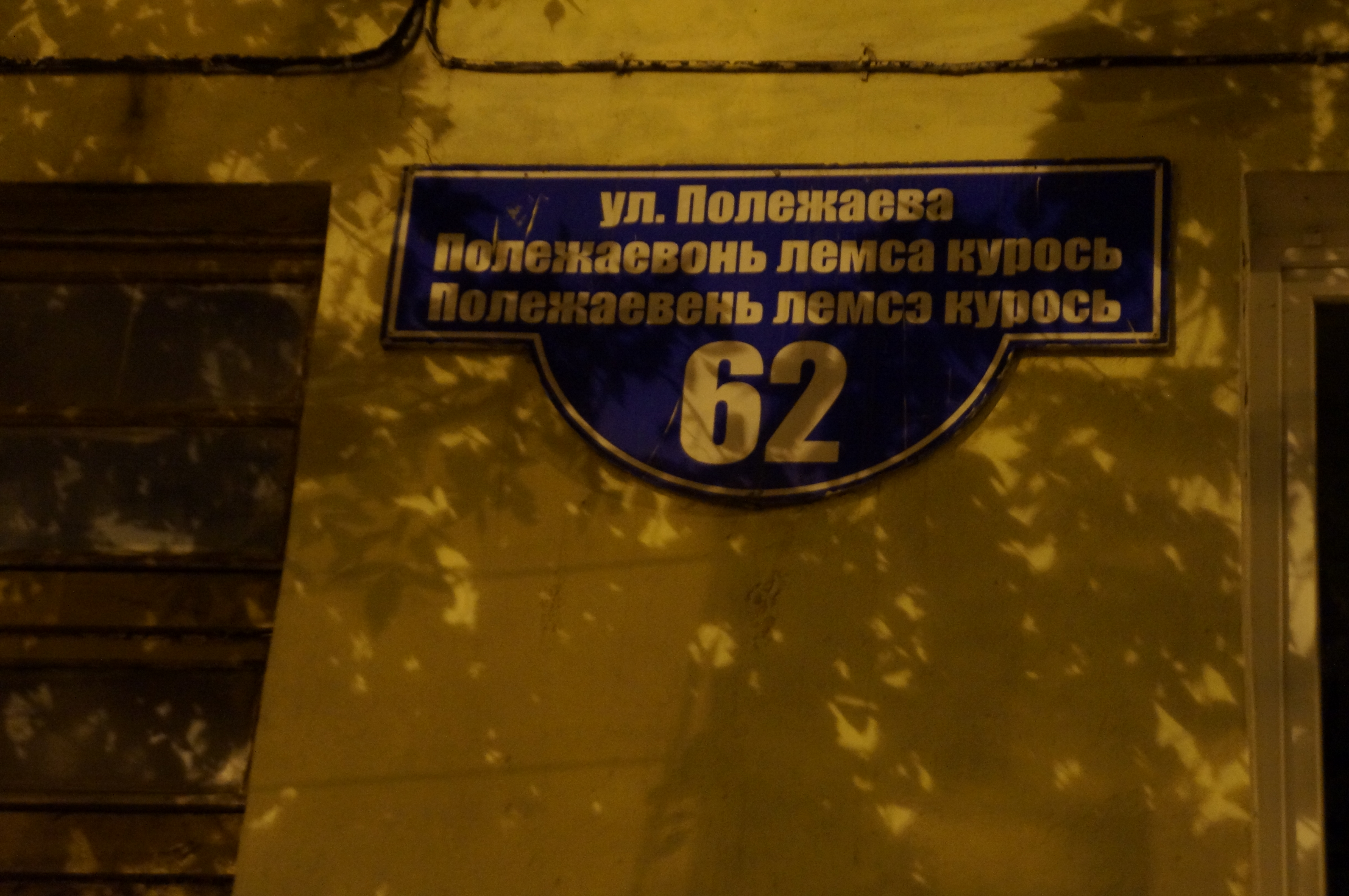 Adrest plaque in the three official languages of the Republic of Mordovia: Russian, Moksha and Erzyan.